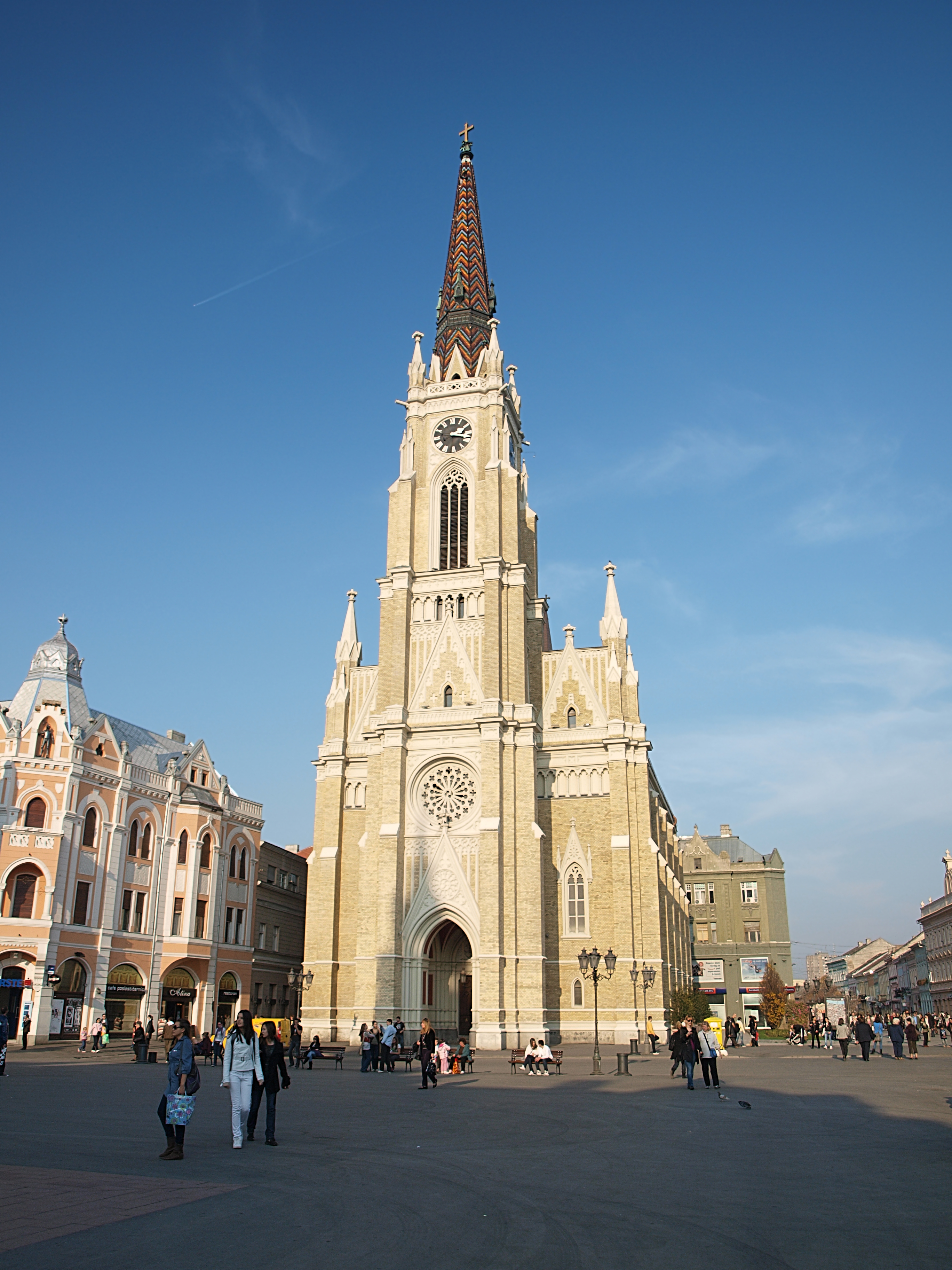 Catholic Cathedral in Novi Sad, Serbia.